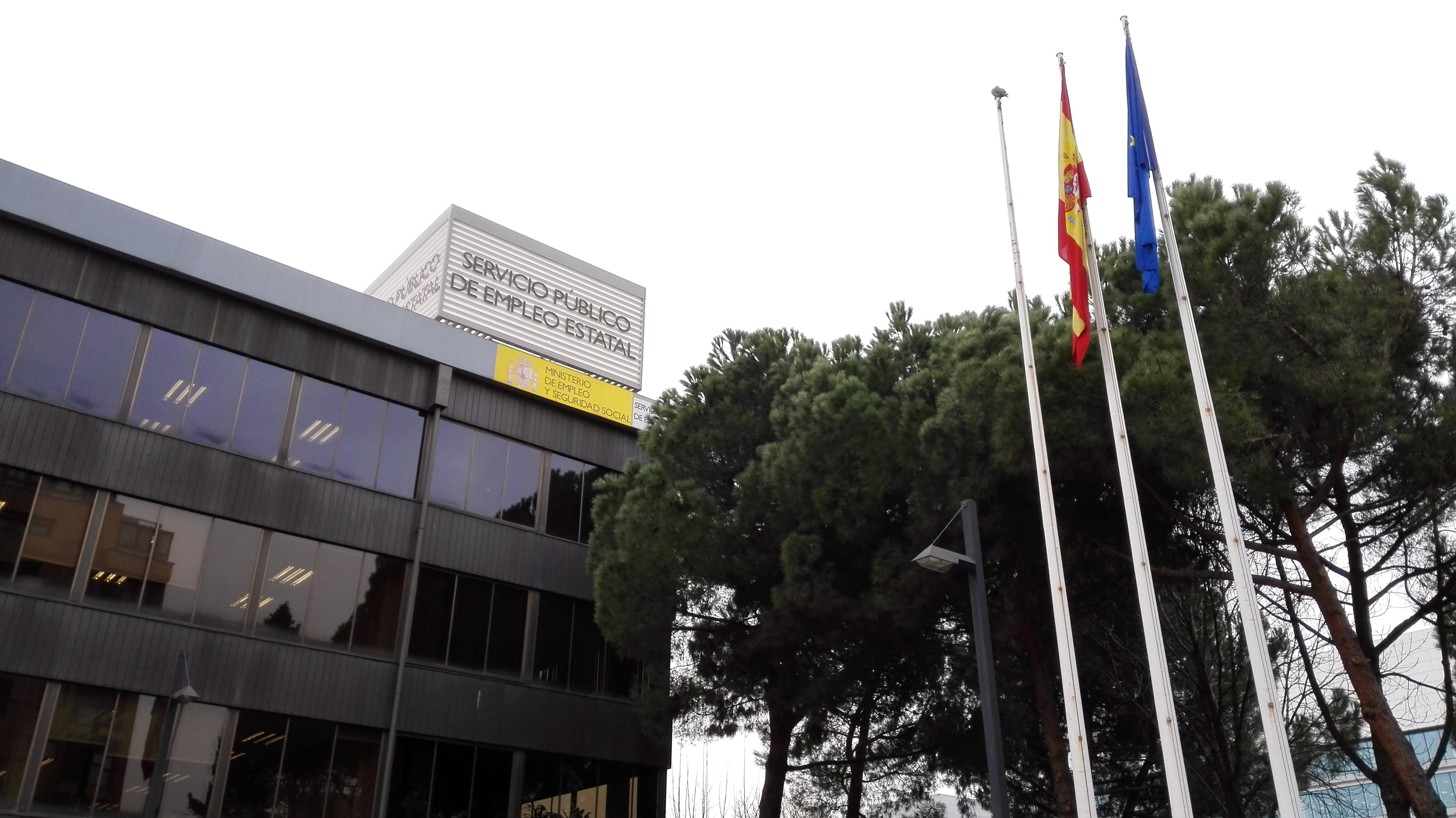 SEPE - Spanish National Institute of Employment